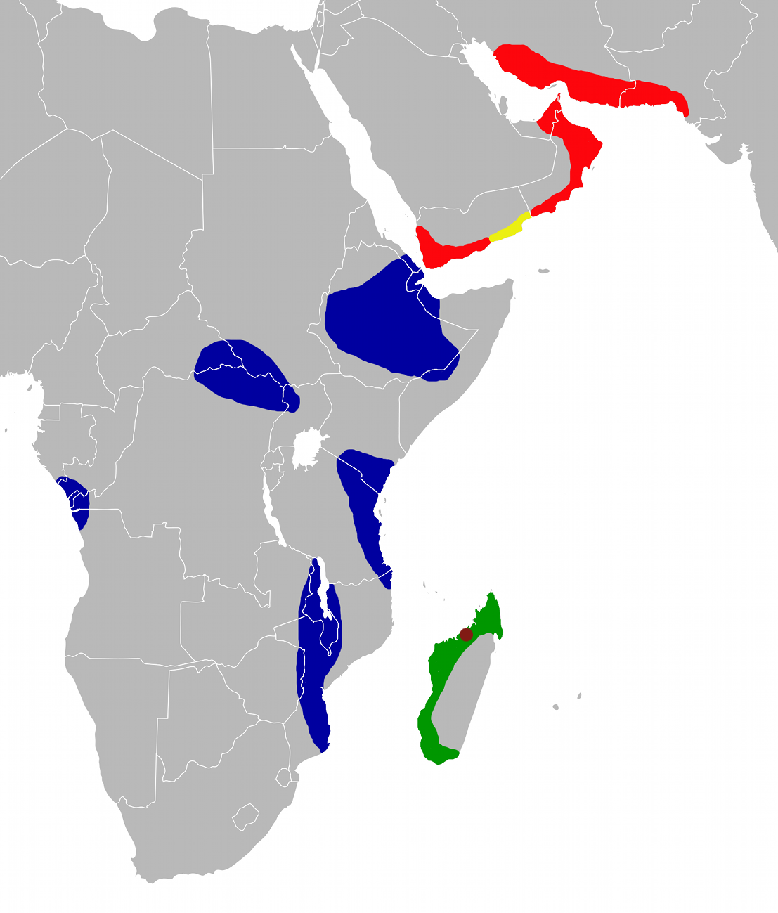 Distribution of the bat genus Triaenops in Africa, the Middle East, and Pakistan. Red: Triaenops persicus yellow: Triaenops persicus and Triaenops parvus (new species found in 2009) blue: Triaenops afer (Syn. Triaenops persicus afer) green: Triaenops menamena (new species found in 2009) brown: only known locality for Triaenops goodmani (now extinct). Sources: Benda and Vallo (2009, Folia Zool. 53(Monogr. 1), particularly fig. 2); Russell et al. (2007, Mol. Ecol. 16:841 fig. 1); Samonds (2007, Acta Chiropterol. 9:40 fig. 1).